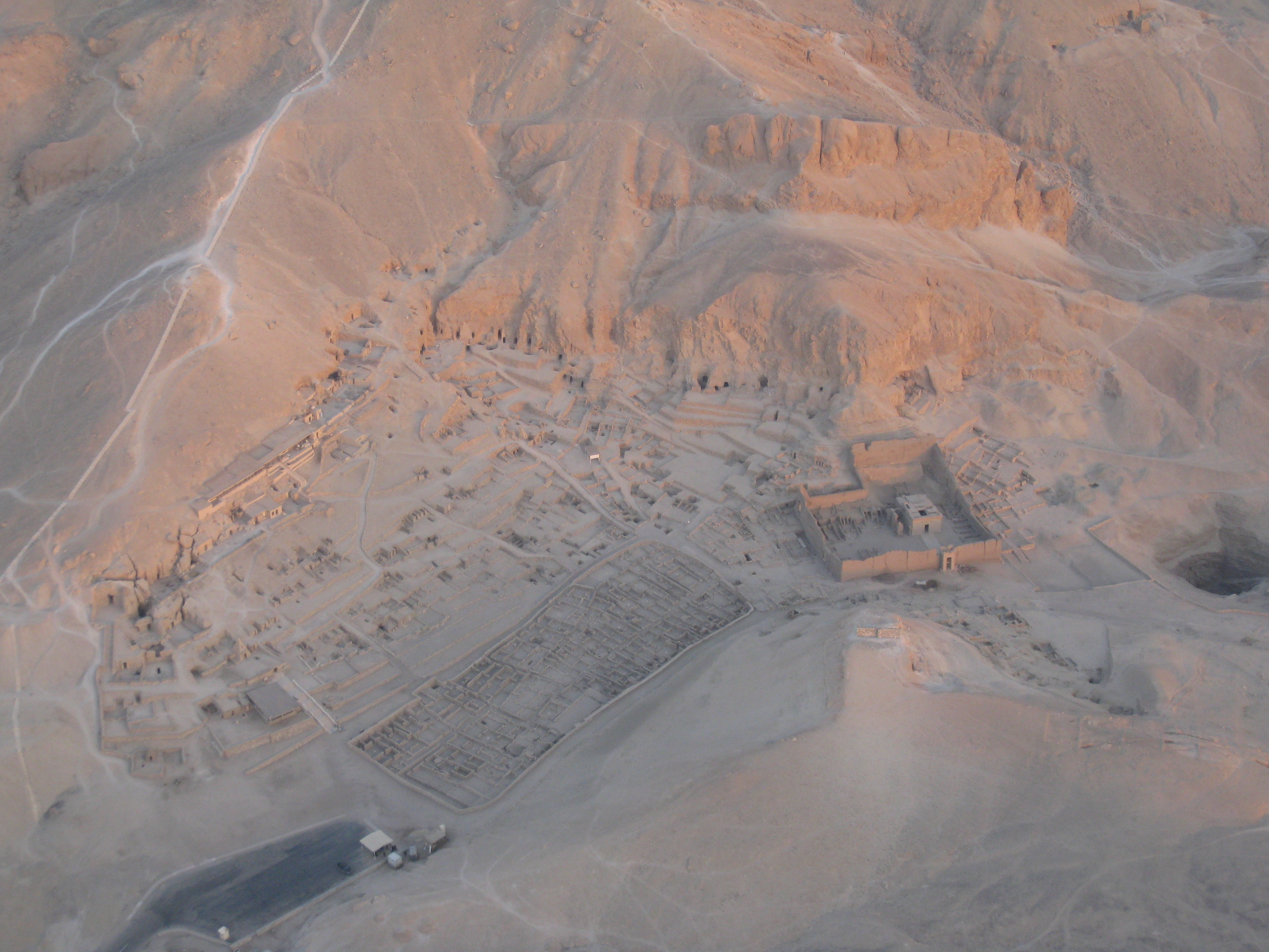 Aerial view of Deir el-Medina, Luxor, West Bank, Egypt